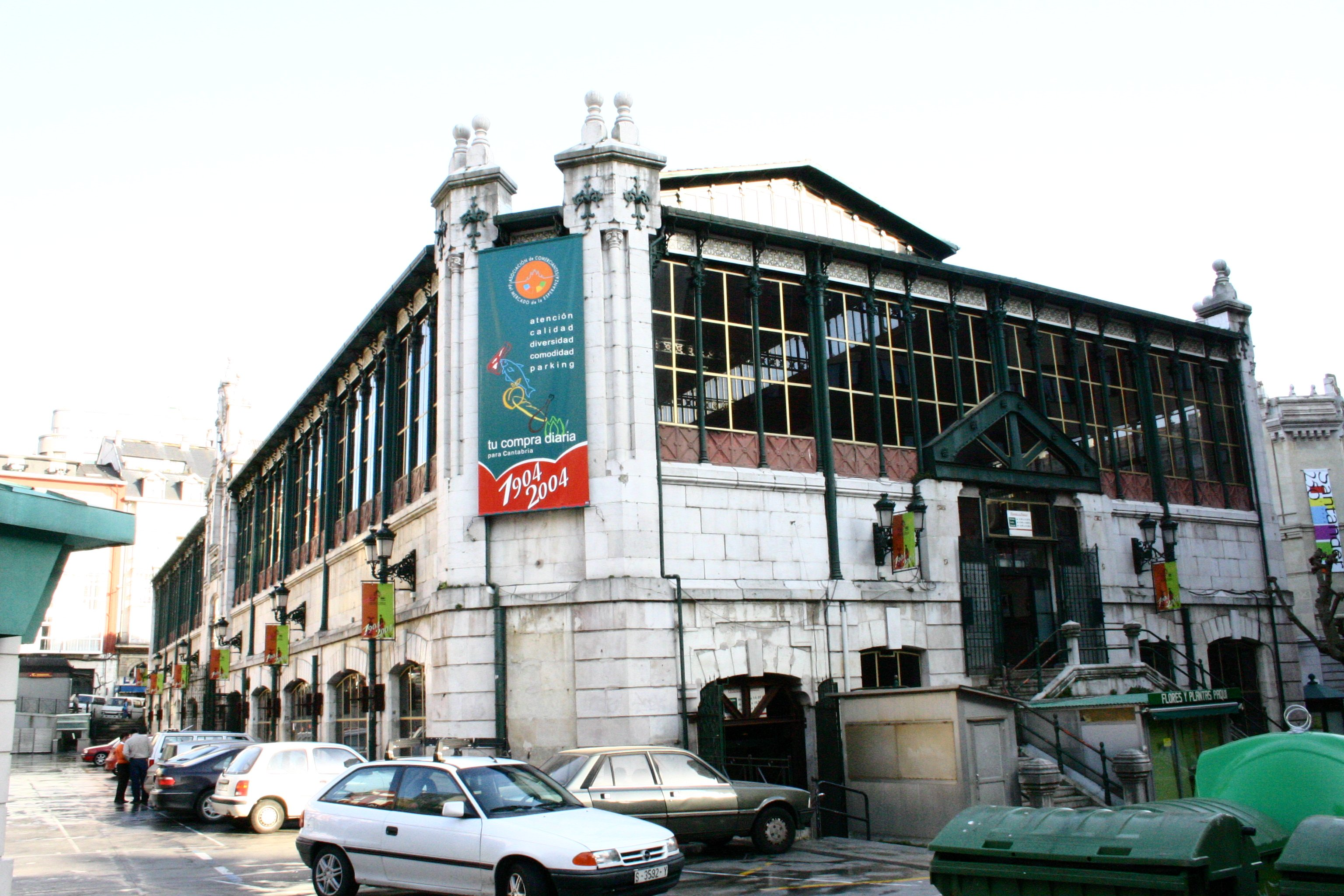 Mercado de la Esperanza, Santander